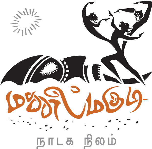 பெயர்